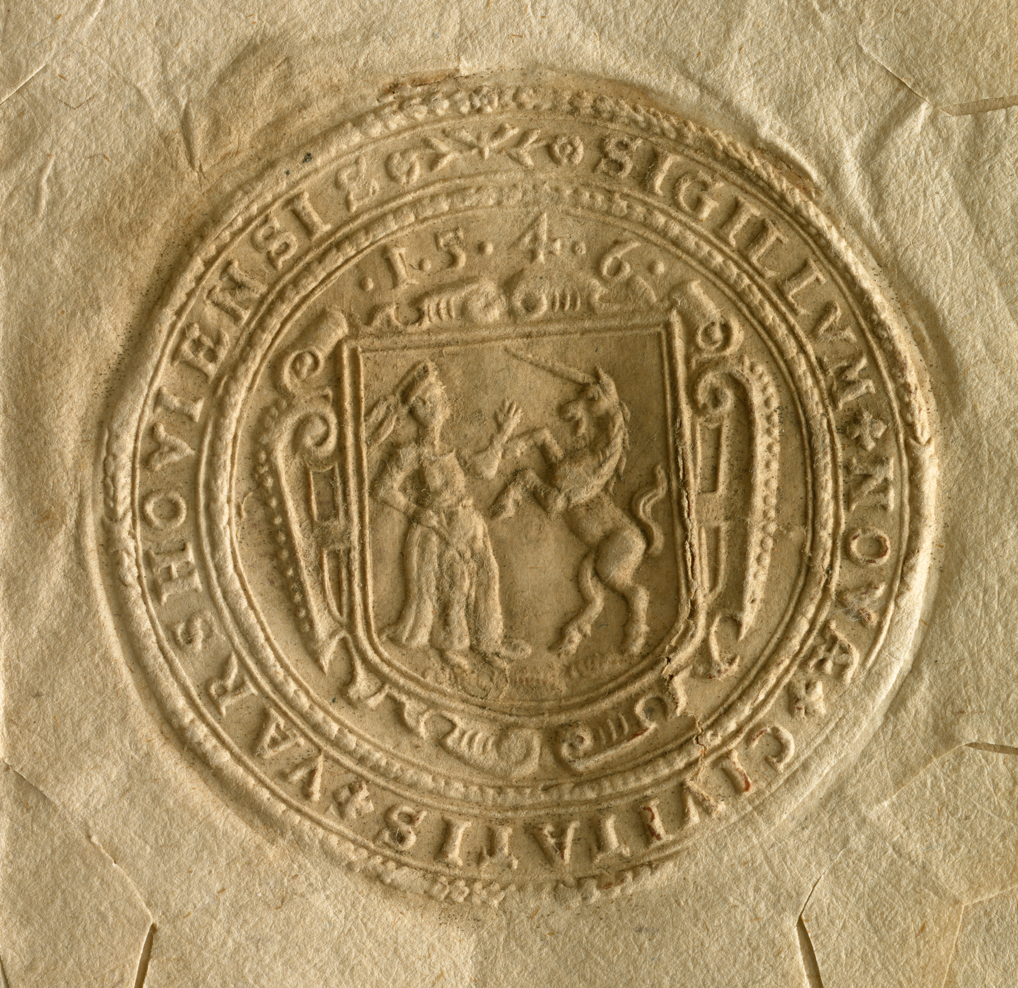 Seal of the town of New Warsaw (now part of Warsaw).